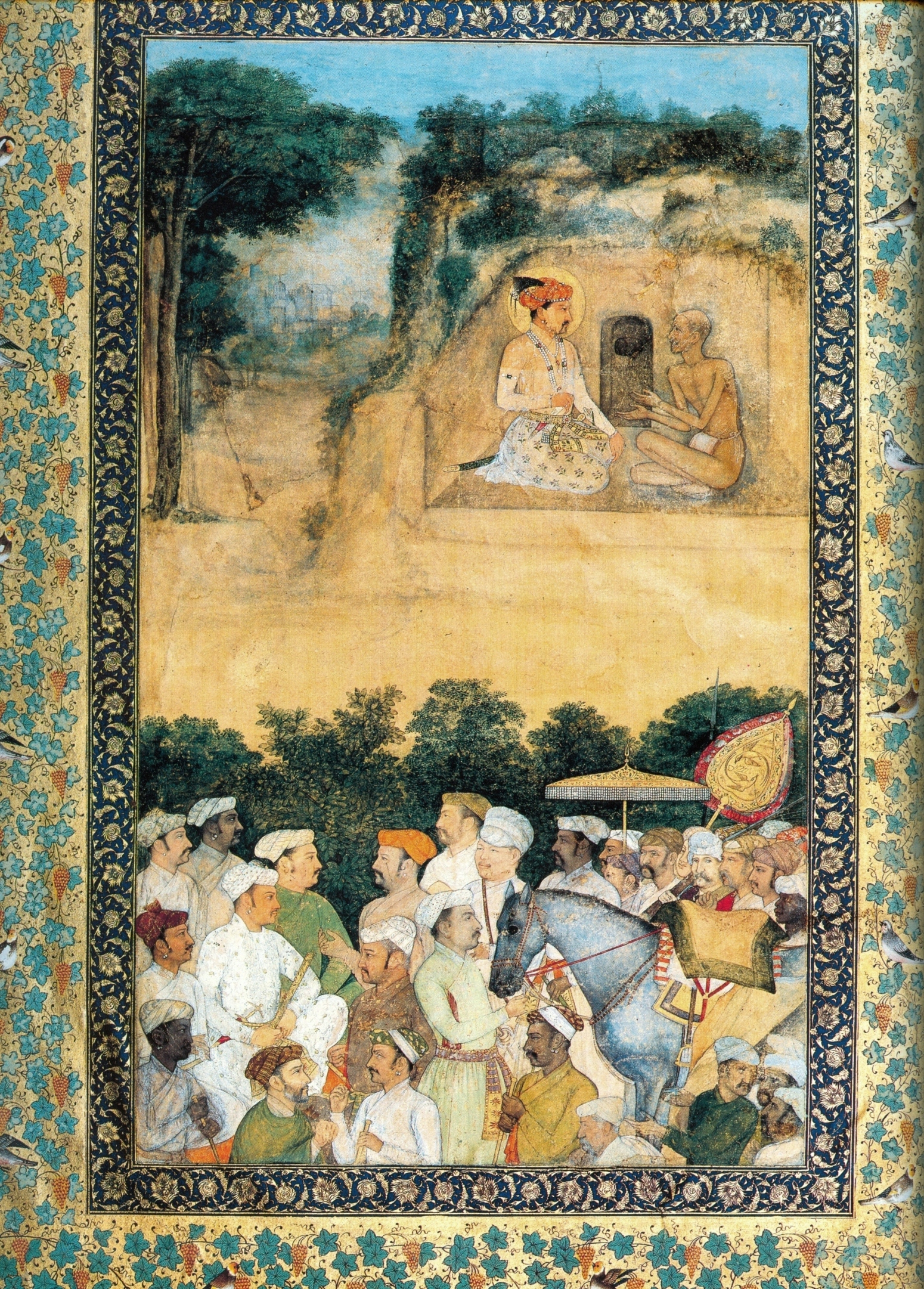 Govardhan. Jahangir Visiting the Ascetic Jadrup. ca. 1616-20, Musee Guimet, Paris